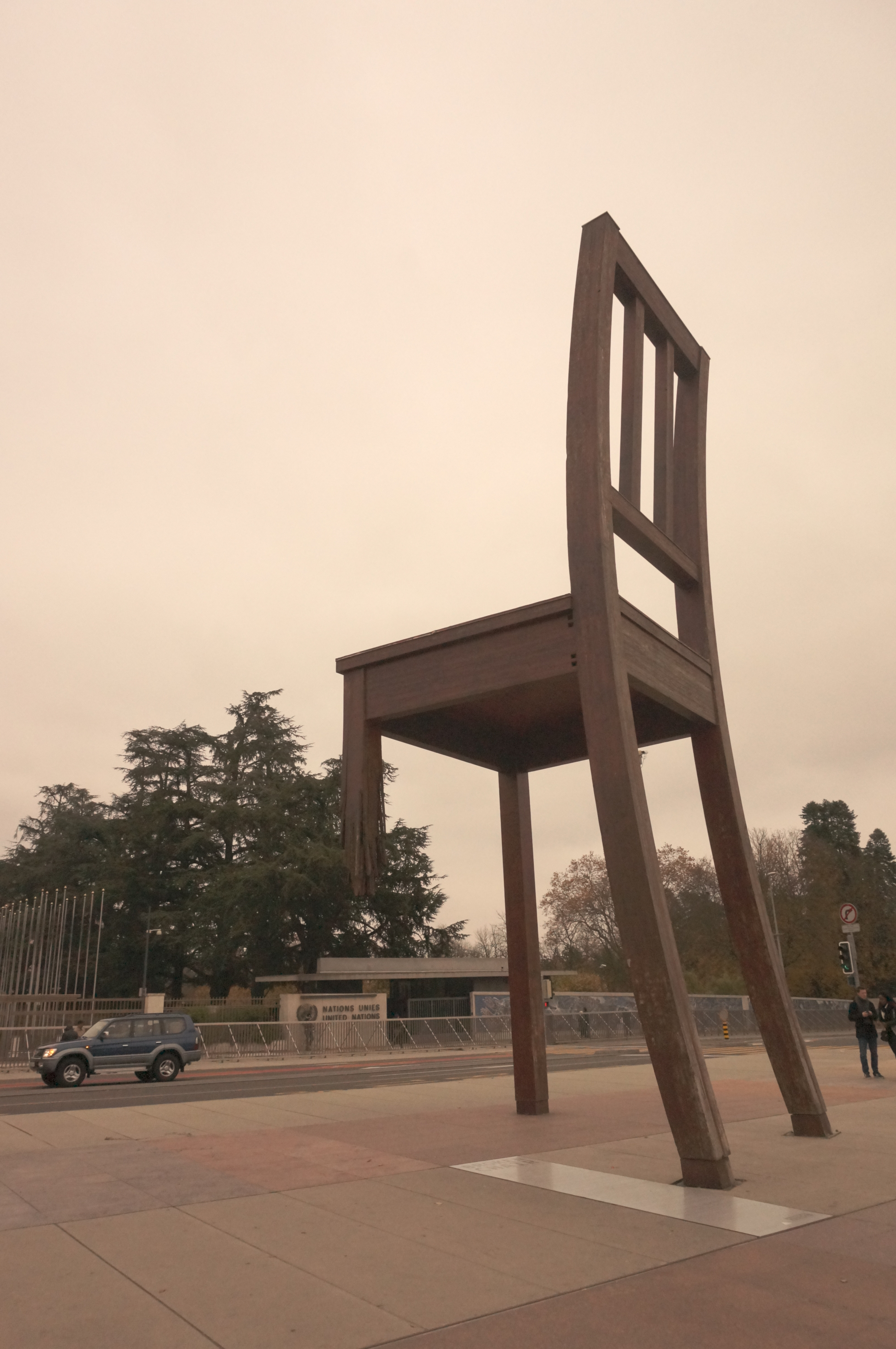 Broken chair in Geneva